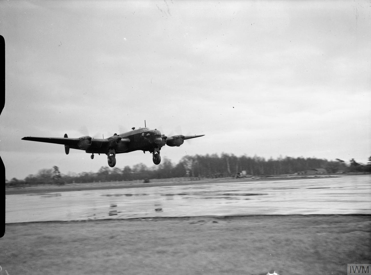 Royal Air Force Bomber Command, 1942-1945. A Handley Page Halifax Mark II Series 1of No. 10 Squadron RAF lands at Melbourne, Yorkshire, after a night raid to Turin, Italy.